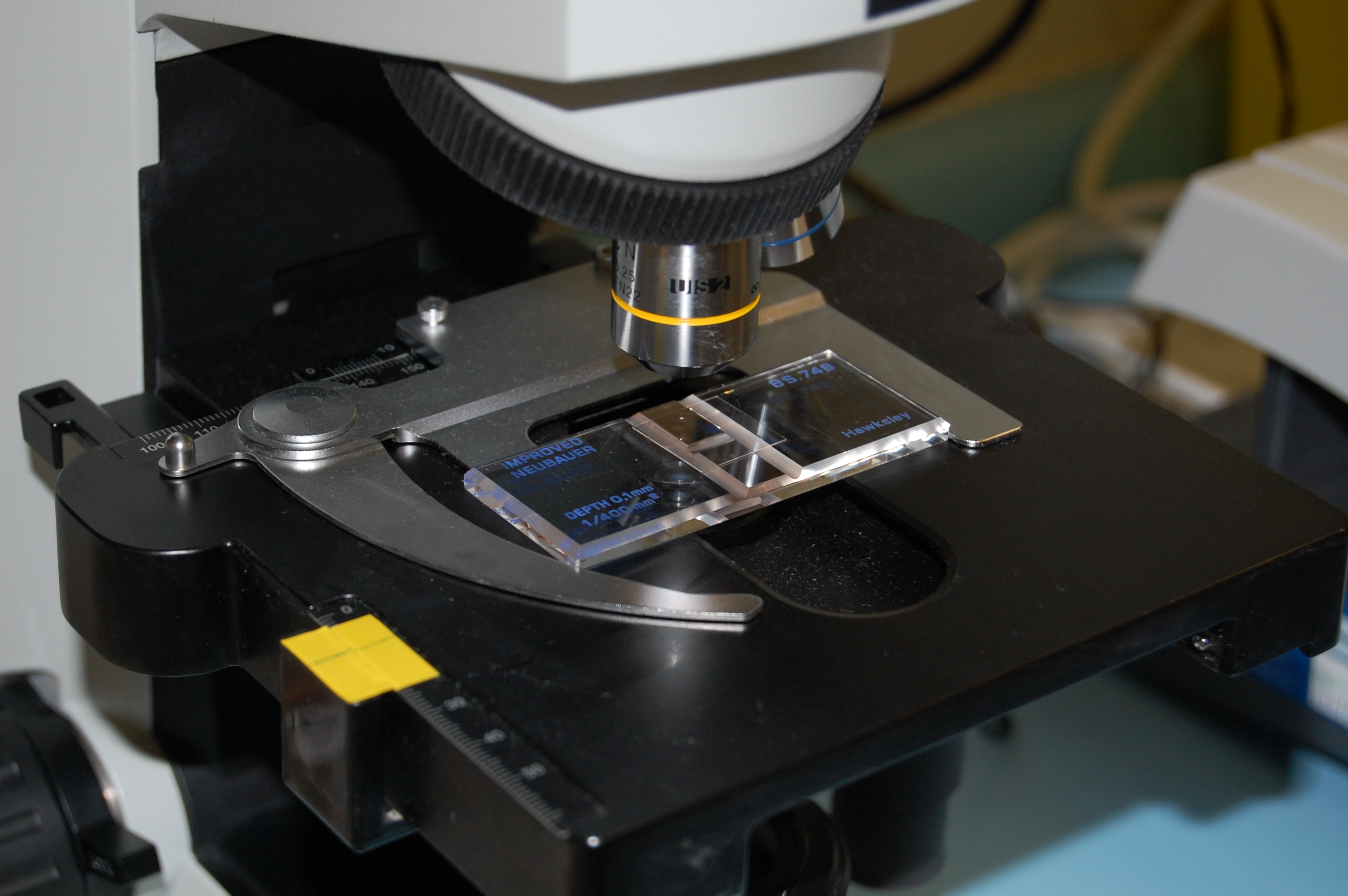 A urine sample is about to be examined under a phase-contrast microscope using a Neubauer counting chamber. The urine is under the cover slide, in the upper segment formed by the H-shaped grooves.